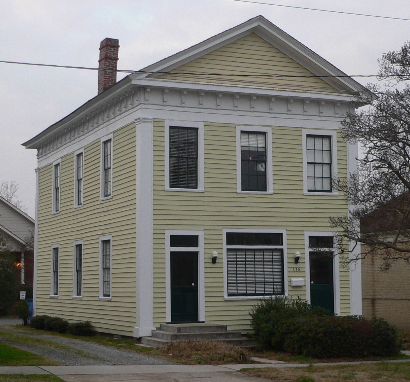 Former Masonic lodge, located at 115 N. 2nd Street in Smithfield, North Carolina.